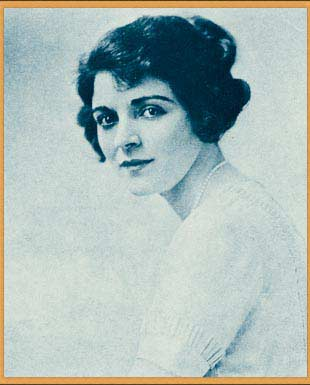 Publicity photo of Wilda Bennett [1] from Who's Who on the Screen.